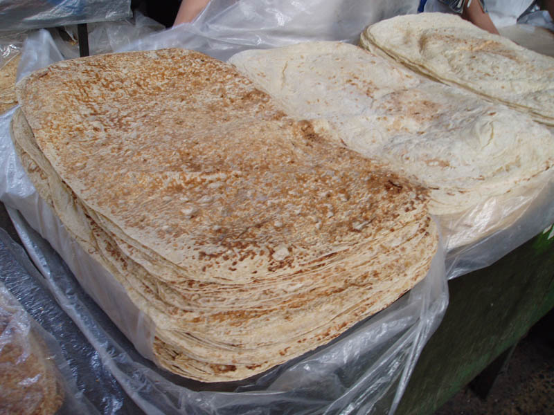 Different varieties of Lavash sold in Yerevan market.